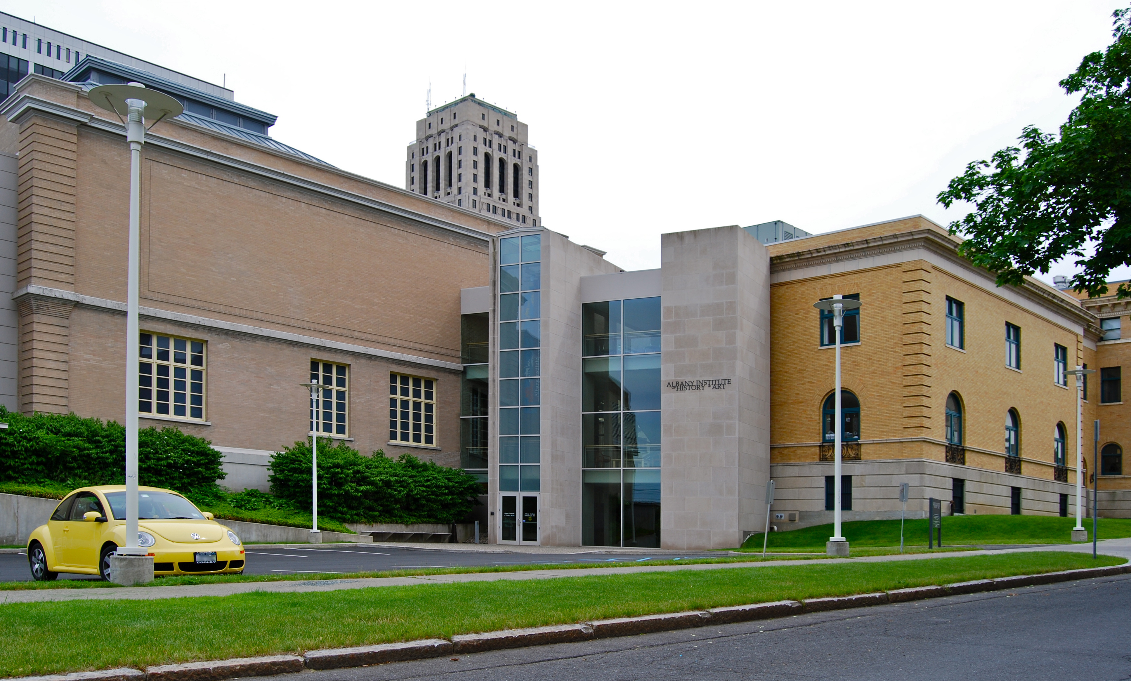 Albany Institute of History & Art, located in Albany, New York, United States. The Alfred E. Smith Building is seen in the background.